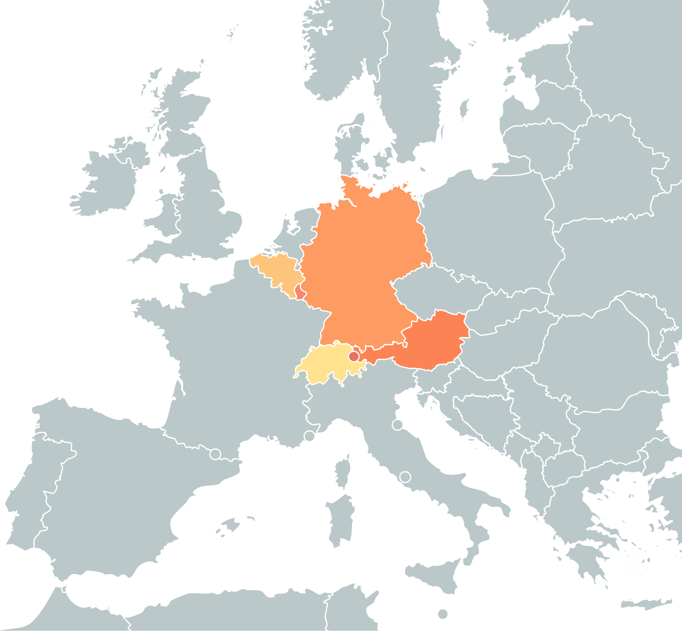 Countries, whose heads of state participate in the annual, informal meetings of German-speaking countries